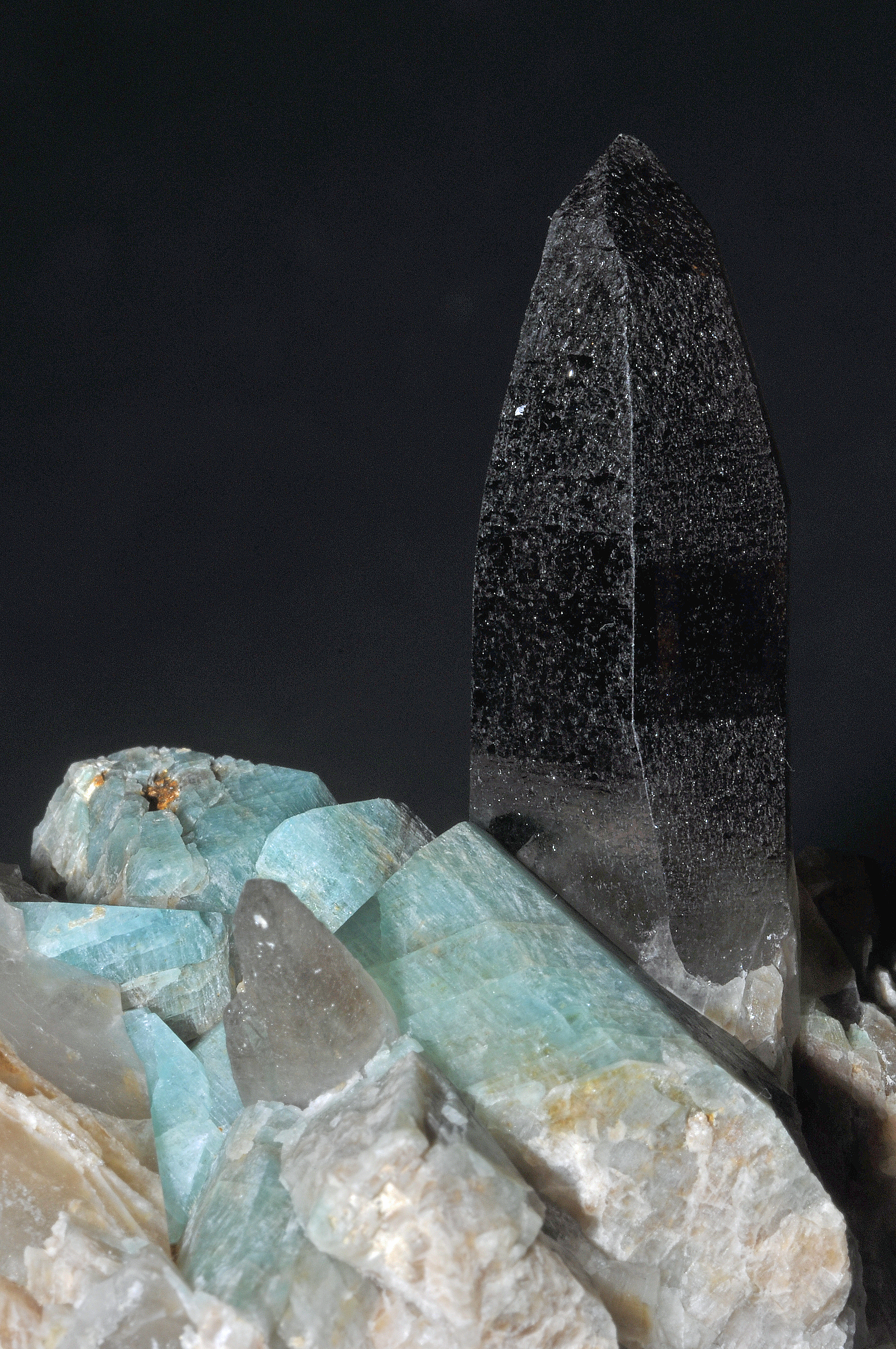 crystals of smoky quartz, crystals of microcline var. amazonite : Pikes Peak Granite, Teller Co., Colorado, USA